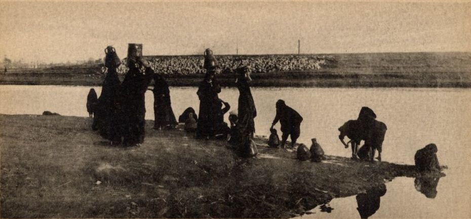 Natives carrying water in large pots from the river